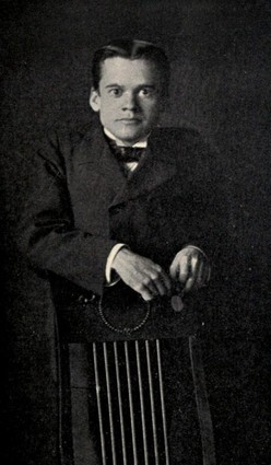 Image from Little pilgrimages among the men who have written famous books (1902)